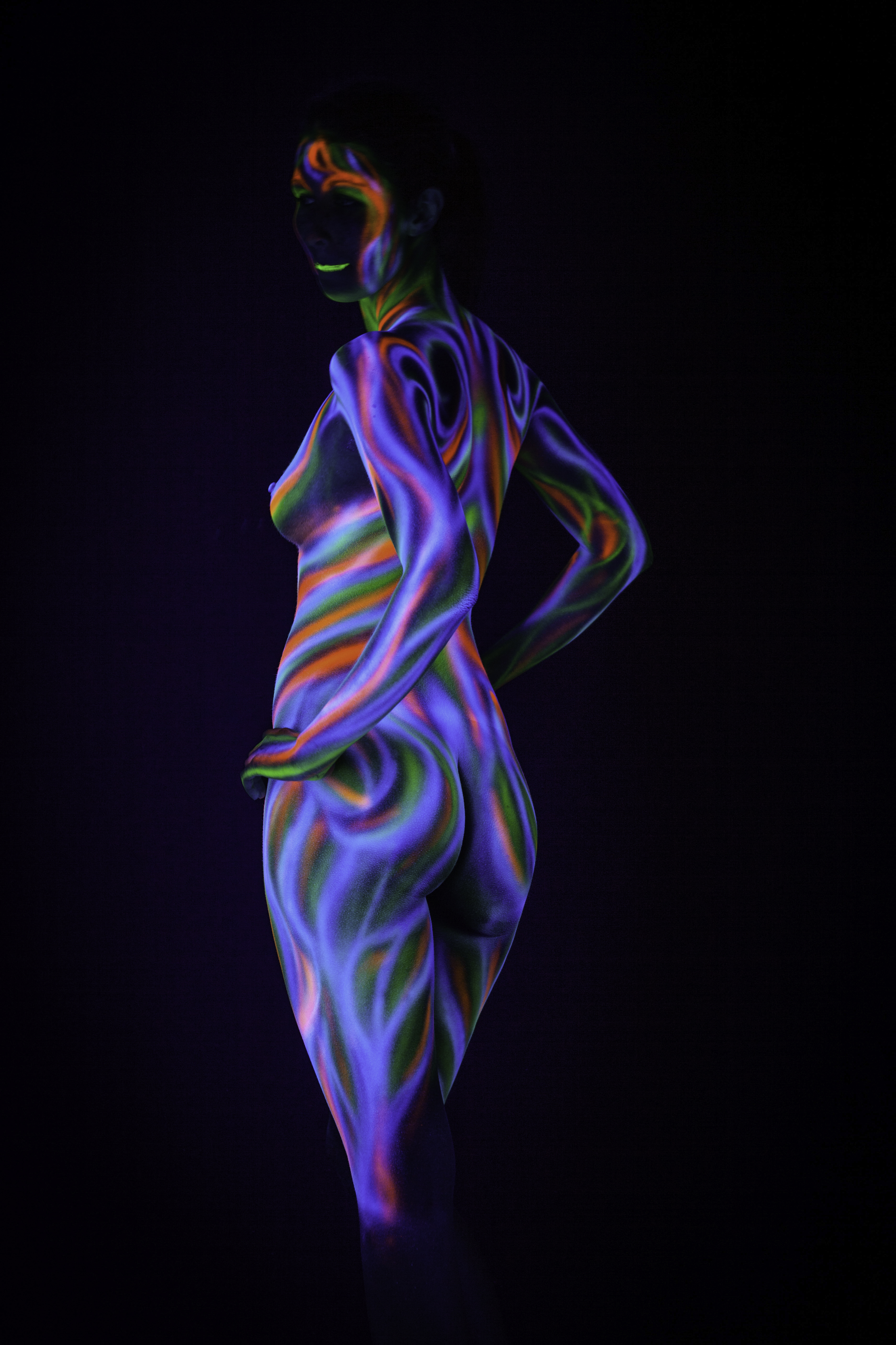 black light fluorescent body paint by Lynn Schockmel based in Luxembourg